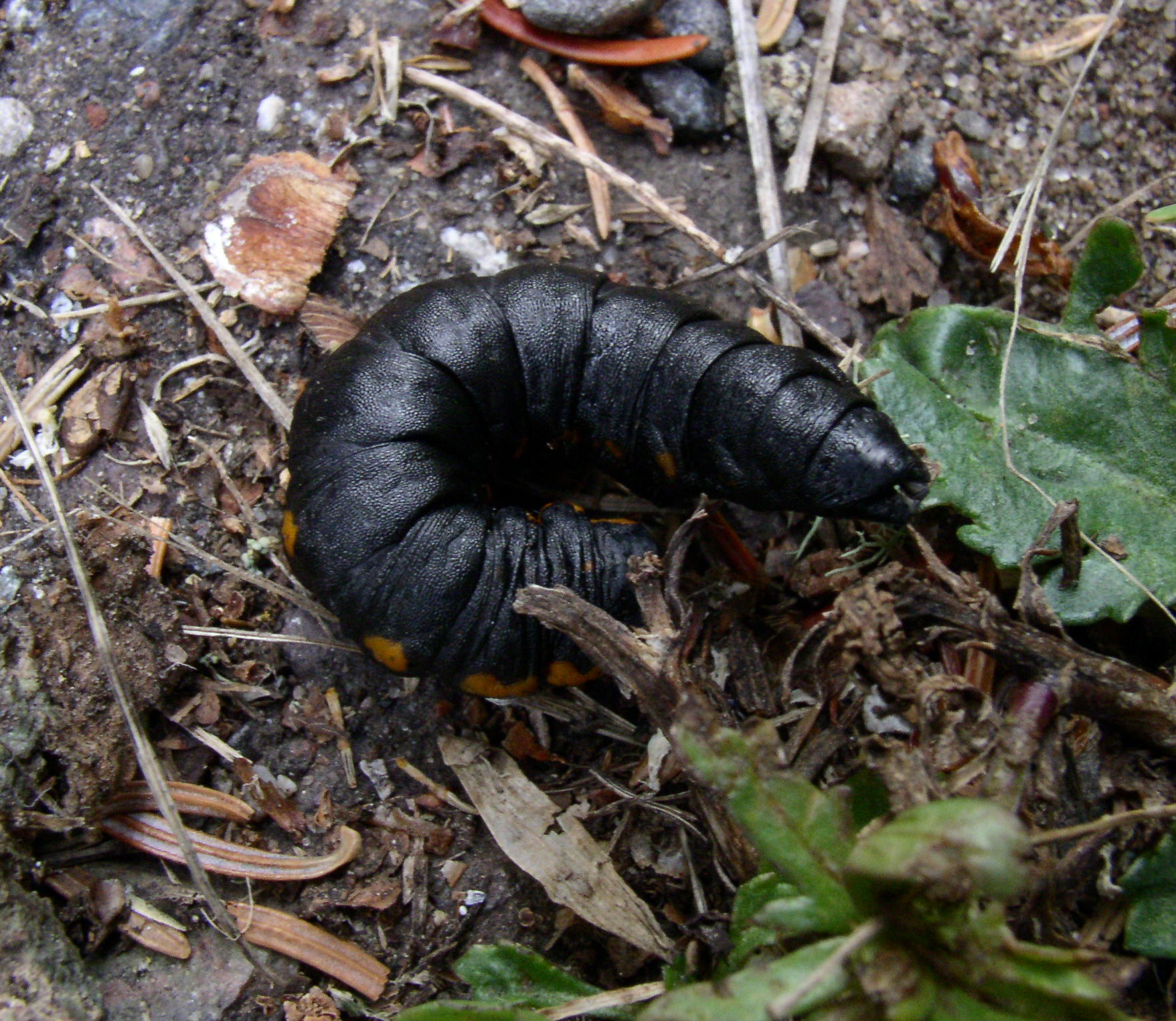 Cucullia intermedia (Dusky Hooded Owlet). Isle Royale, Keweenaw County, Michigan, USA.